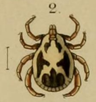 Male Rhipicephalus pulchellus. Note Gerstäcker was labeled Dermacentor pulchellus